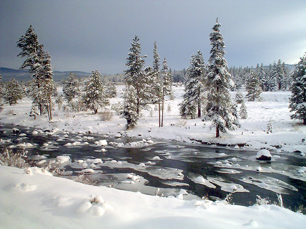 View of the Truckee River from the UPRR grade just East of Truckee, CA.